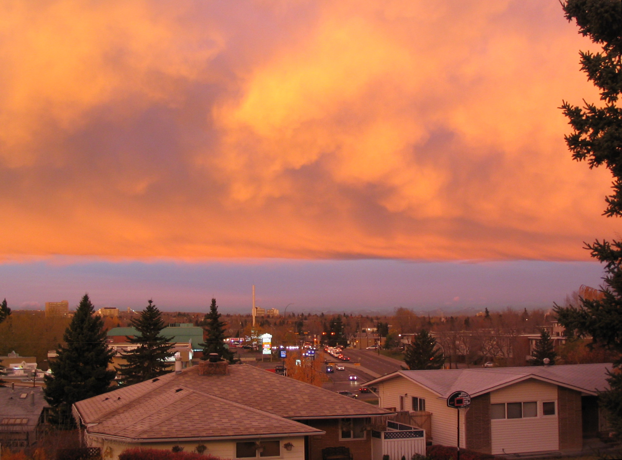 The colors seen in the chinook arch are quite common. Typically the colors will change throughout the day. Starting with Yellows, Oranges, Reds and Pink shades in the morning as the sun comes up. Gray shades in the mid day, changing to pink/red colors and then changing to orange/yellow hues just before the sun sets. The coloring on this image was not changed through post processing, this is what the arch will often look like.